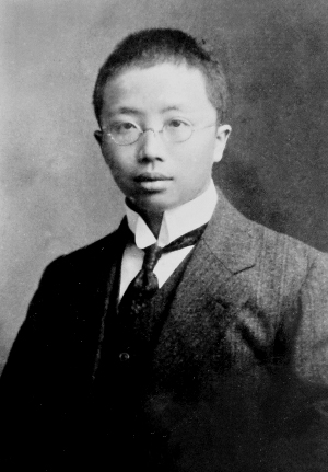 Yang Shukan